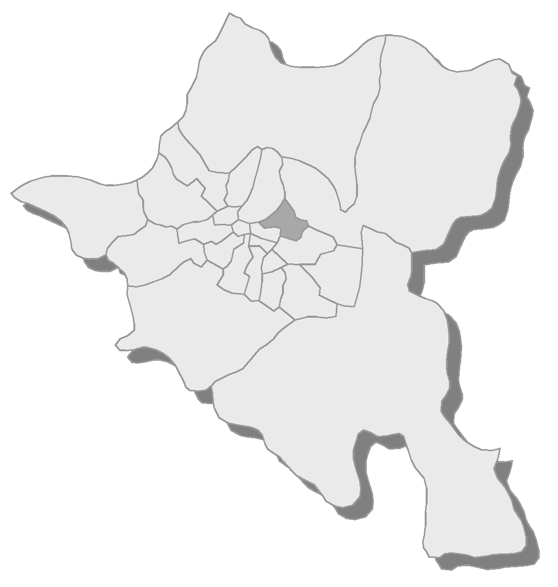 Sofia, municipality Poduyane